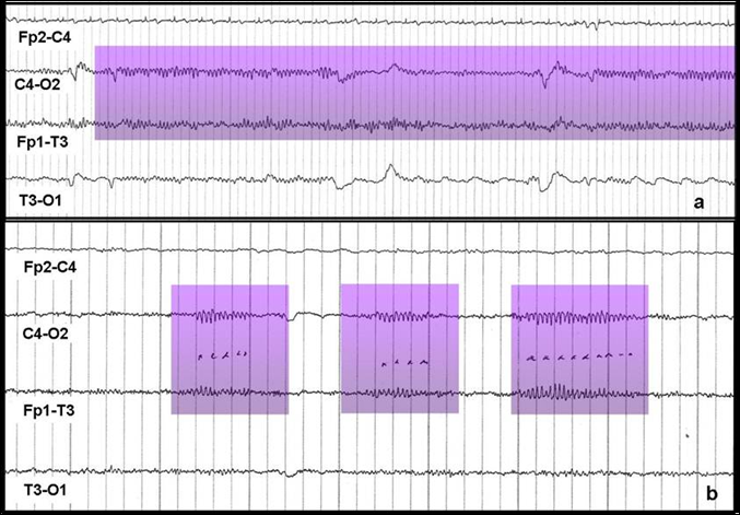 Example of mu rhythm patterns: a) continuous mu rhythm (mu status), b) spike-wave discharge